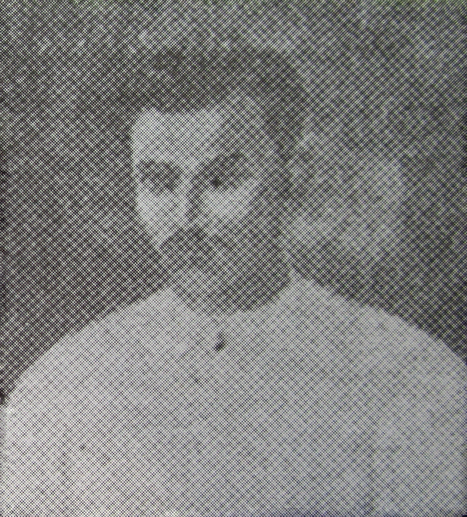 Atul Sen